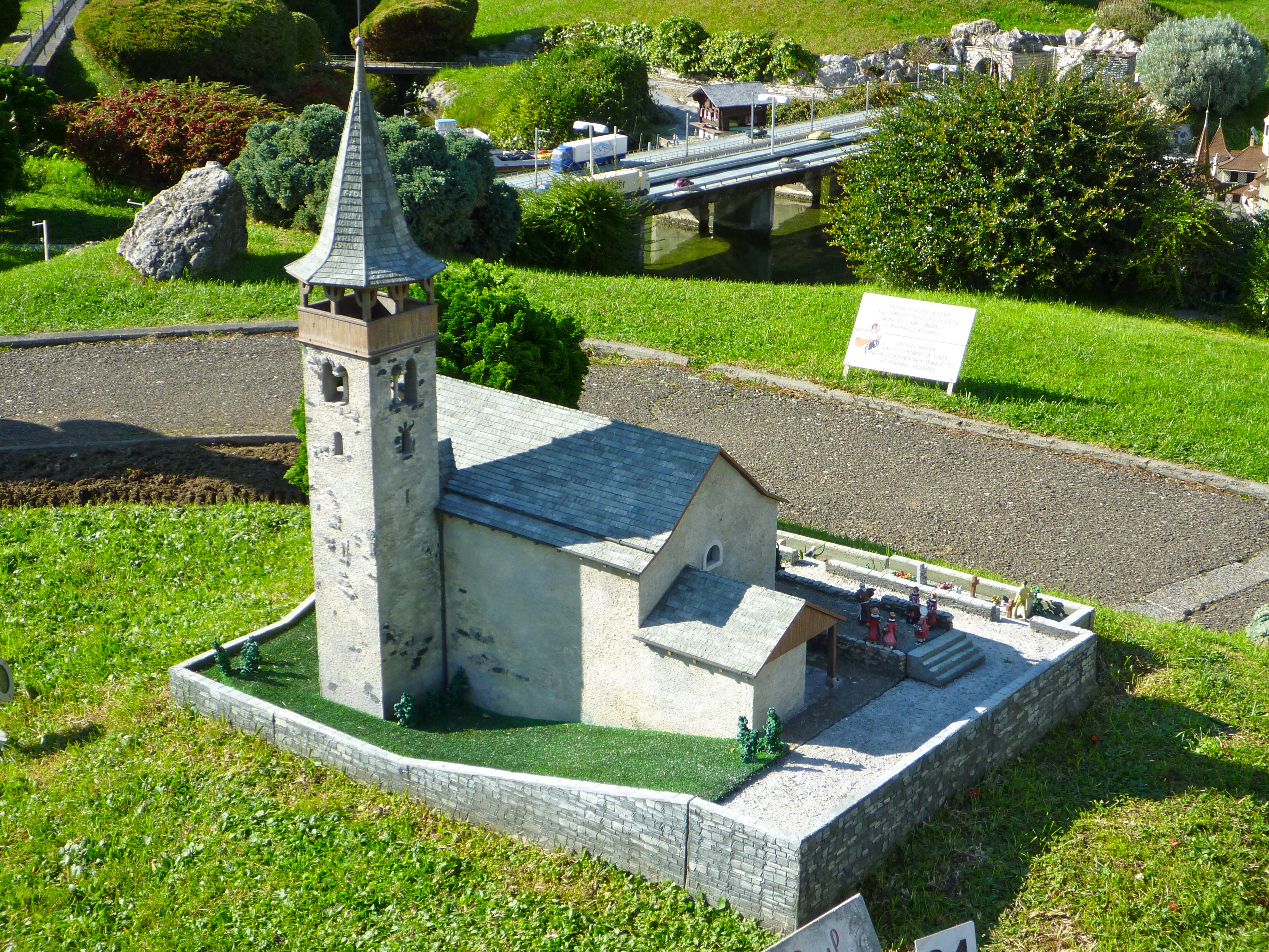 St. Paul's church in Rhäzüns/Switzerland: Model at museum "Swissminiatur" in Melide/Switzerland (scale 1:25)